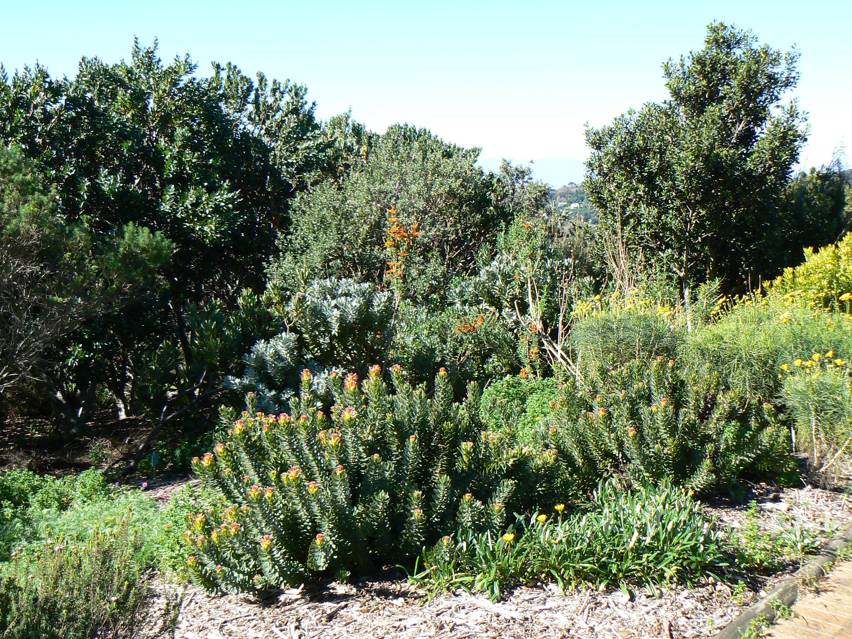 Leucospermum cuneiforme in Kirstenbosch National Botanical Garden, Cape Town, South Africa